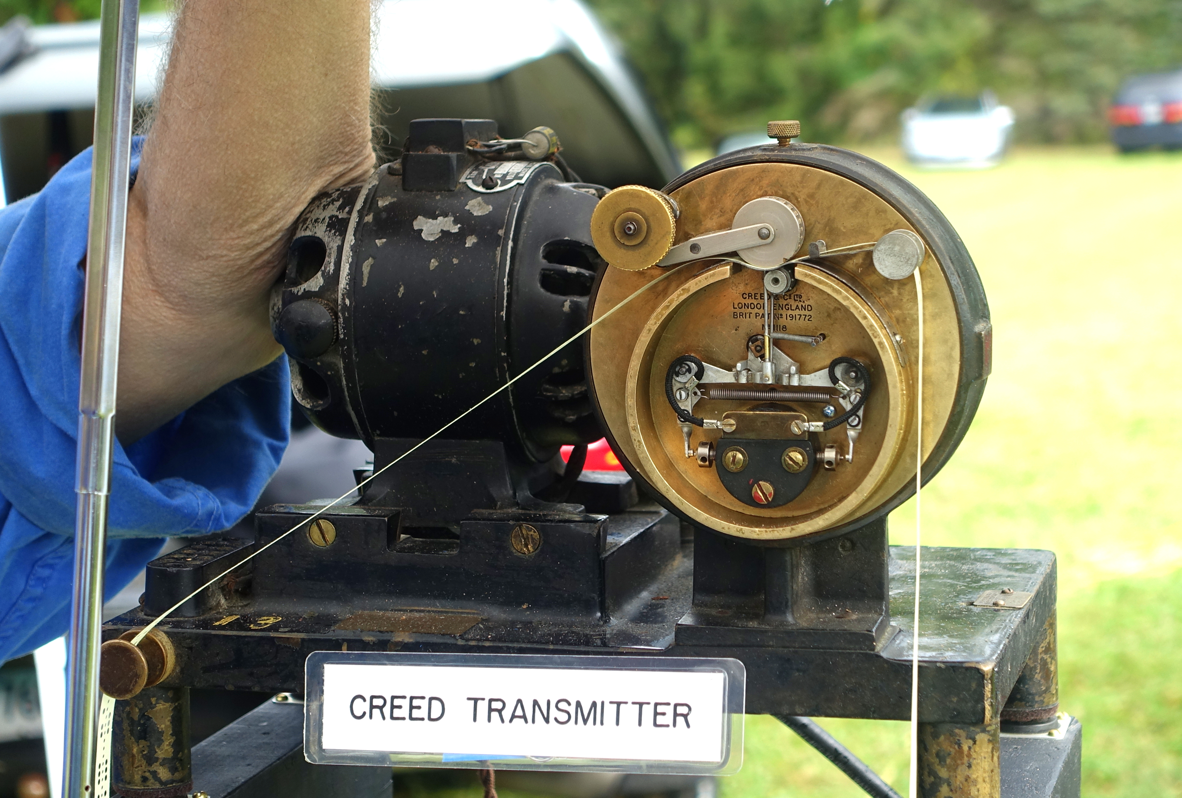 Transmitter, Creed & Co. - New England Wireless & Steam Museum - East Greenwich, Rhode Island, USA.